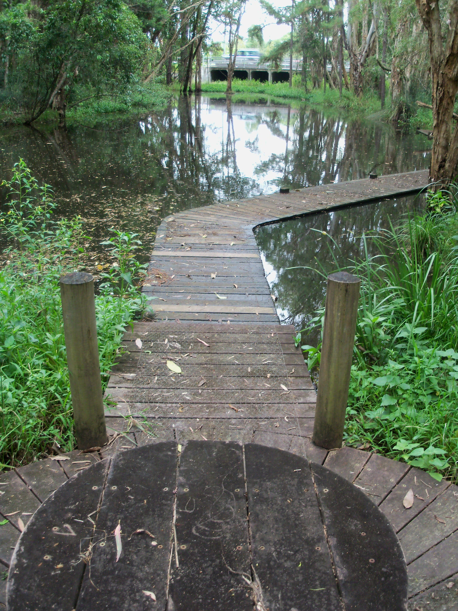 Photograph. Freshwater pond, at Victoria Point, near Brisbane, Queensland, Australia. On the grounds of Eprapah. Taken April 2015.